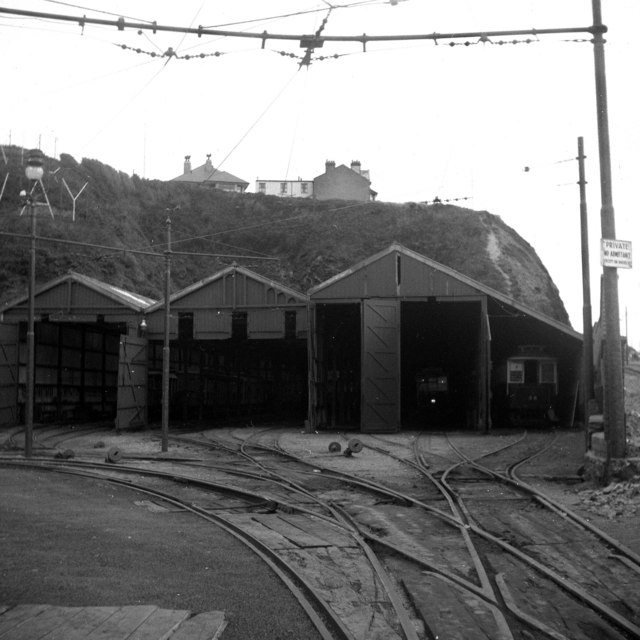 Derby Castle Depot, Manx Electric Railway